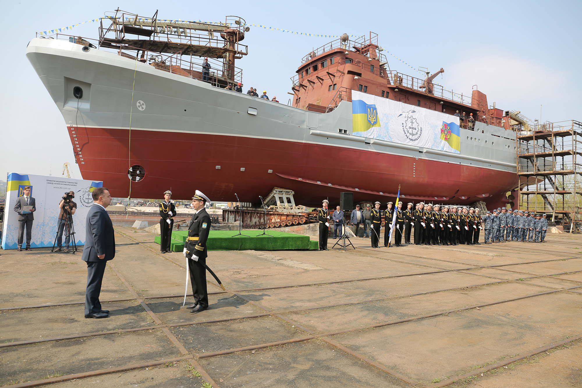 Reconnaissance vessel of Ukrainian navy at ship launching, Kyiv